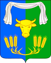 Coat of arms of Pokrovskoye municipality, Novopokrovskaya, Krasnodar